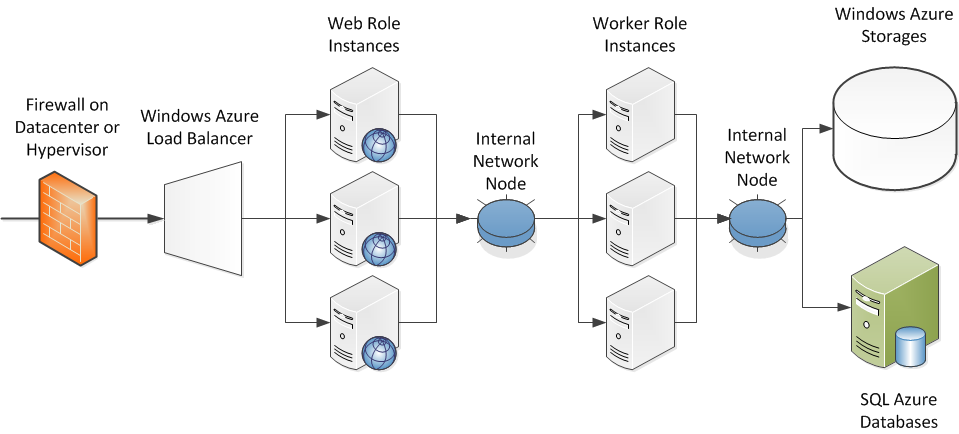 Windows Azure Network and Computes deployment Architecture